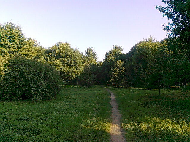 Park Ludowy in Lublin, Poland, July 2013